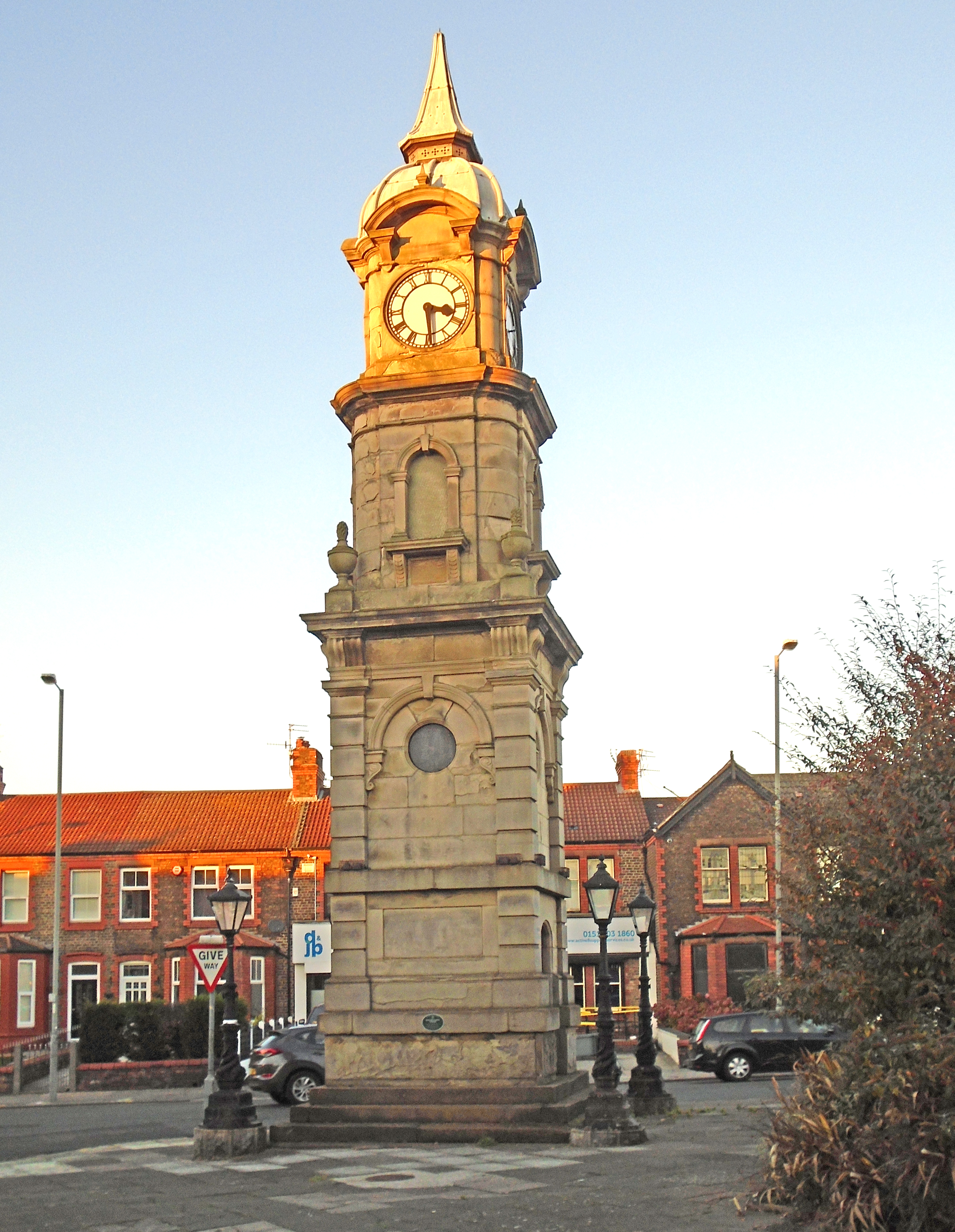 View from the roundabout